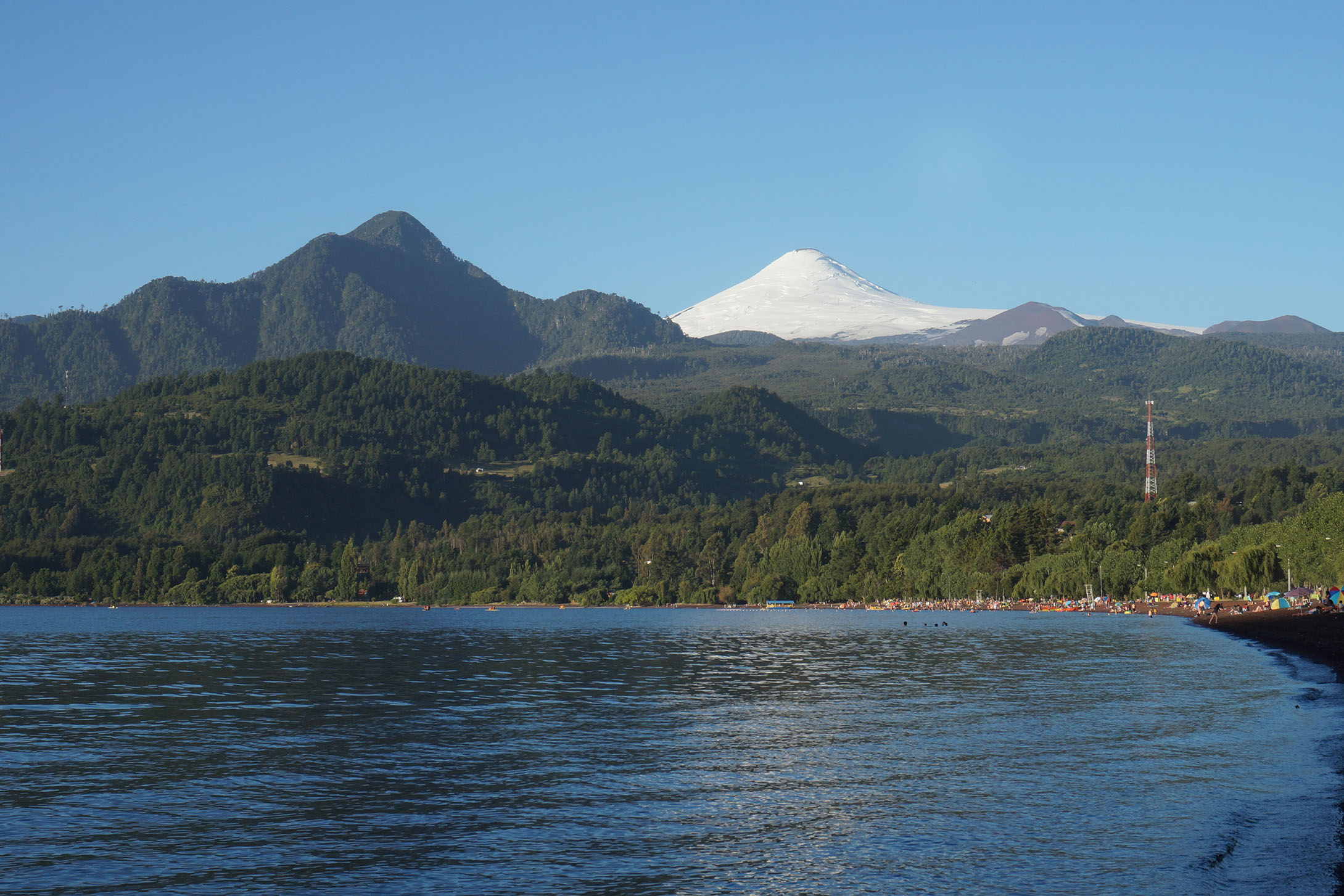 Coñaripe Beach with Villarrica Volcano, at Región de los Ríos, Chile